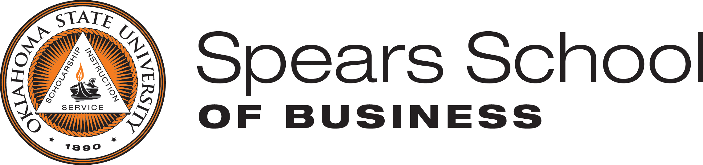 logo for the Spears School of Business at Oklahoma State University